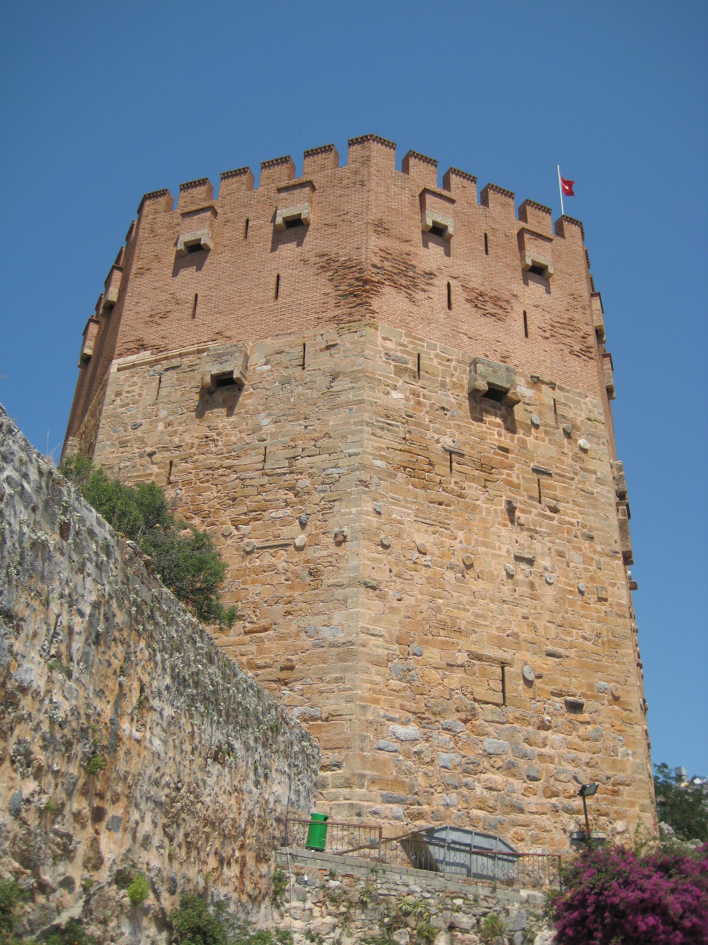 Red Tower in Alanya (Turkey)